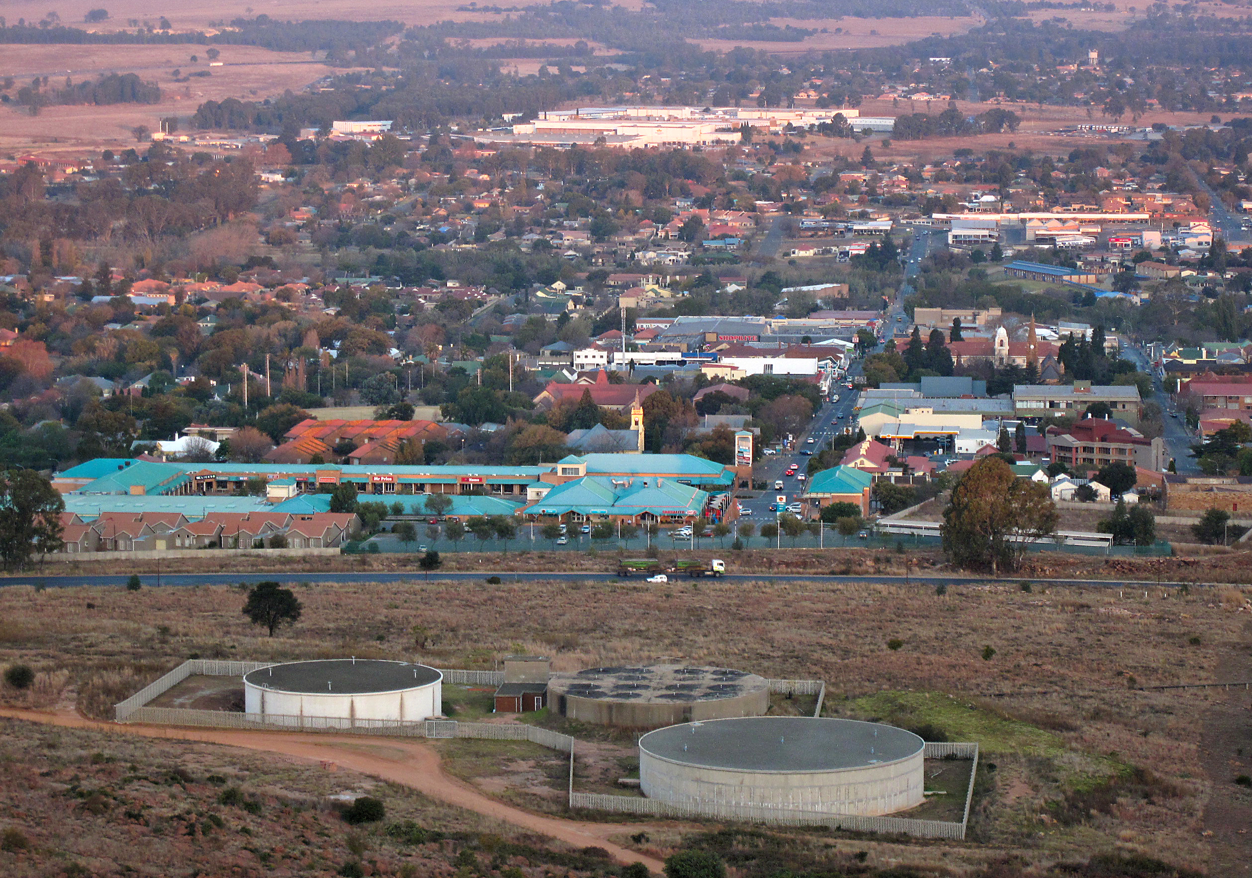 View over the town of Heidelberg, Gauteng, South Africa